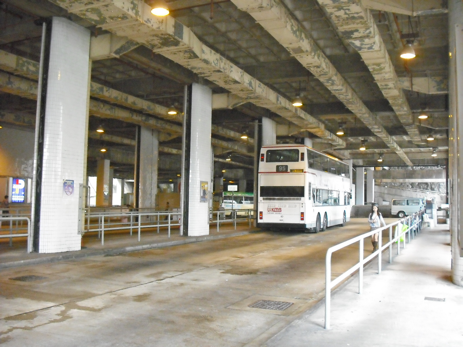 Tsui Lam Bus Terminhus